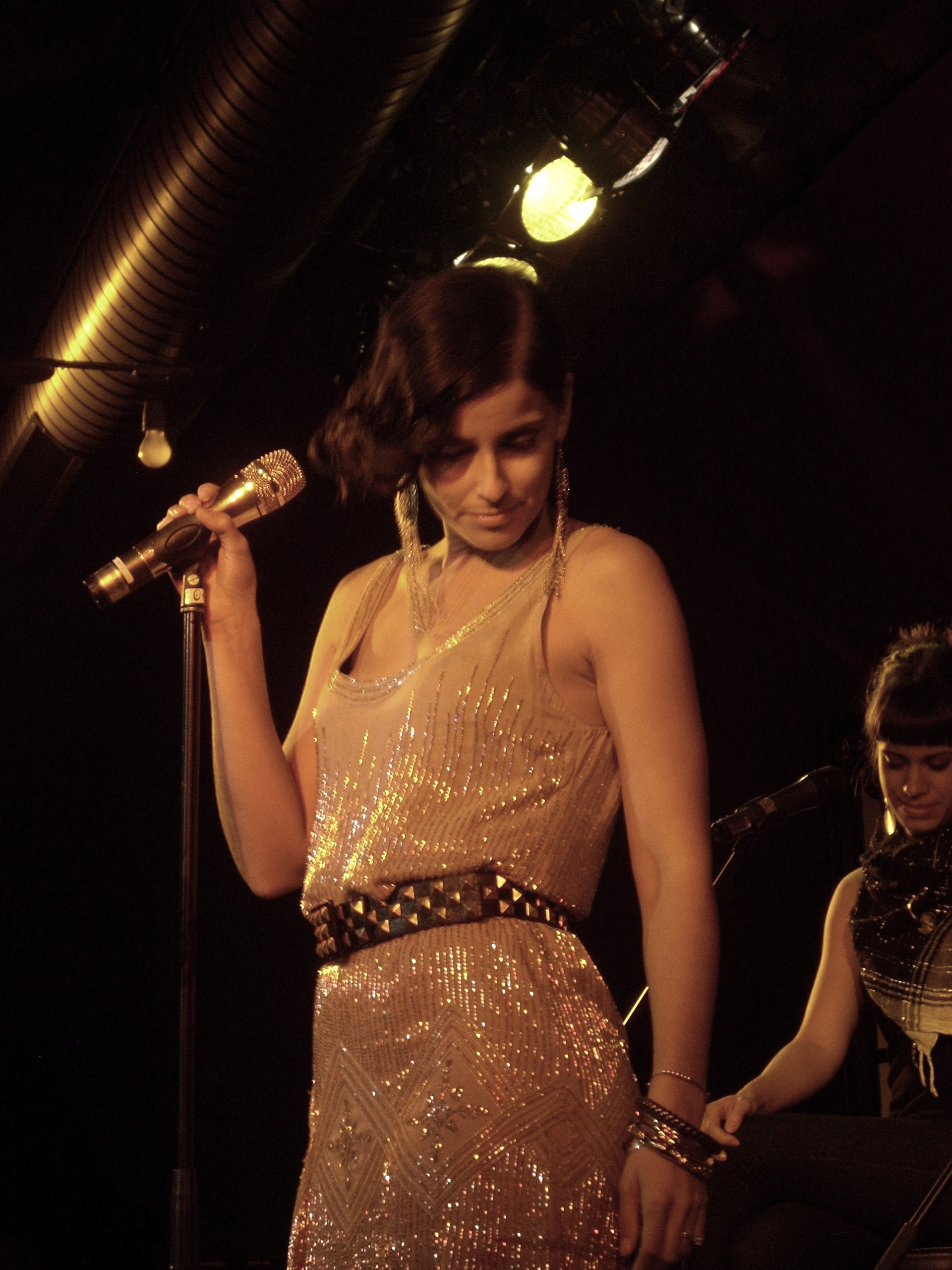 The Mi plan Promo Tour in Germany